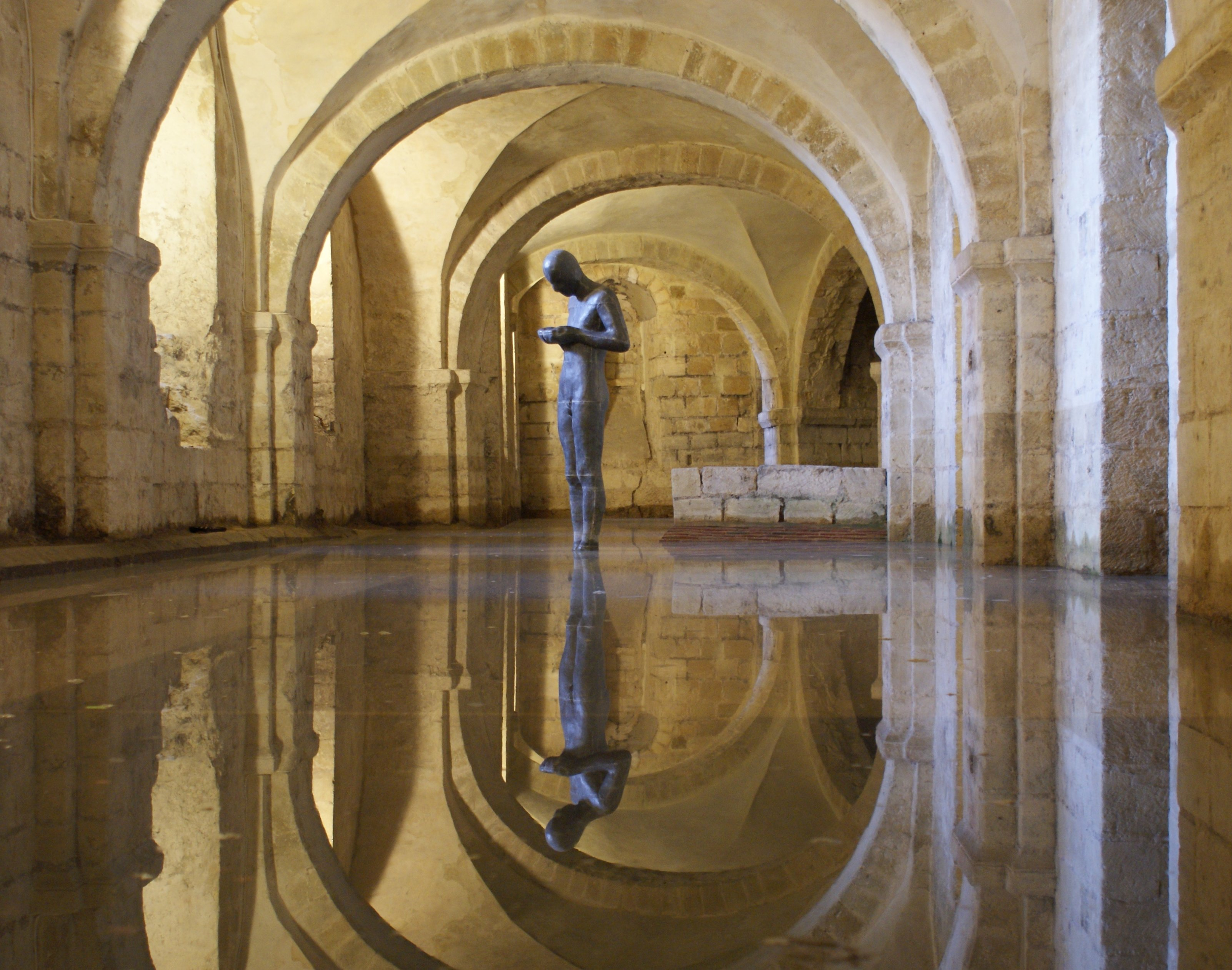 Antony Gormley's statue in the crypt of Winchester Cathedral